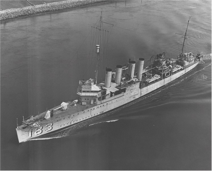 American Wickes class destroyer USS Haraden (DD-183). Was transferred to Canada in 1940 and became HMCS Columbia (I49).